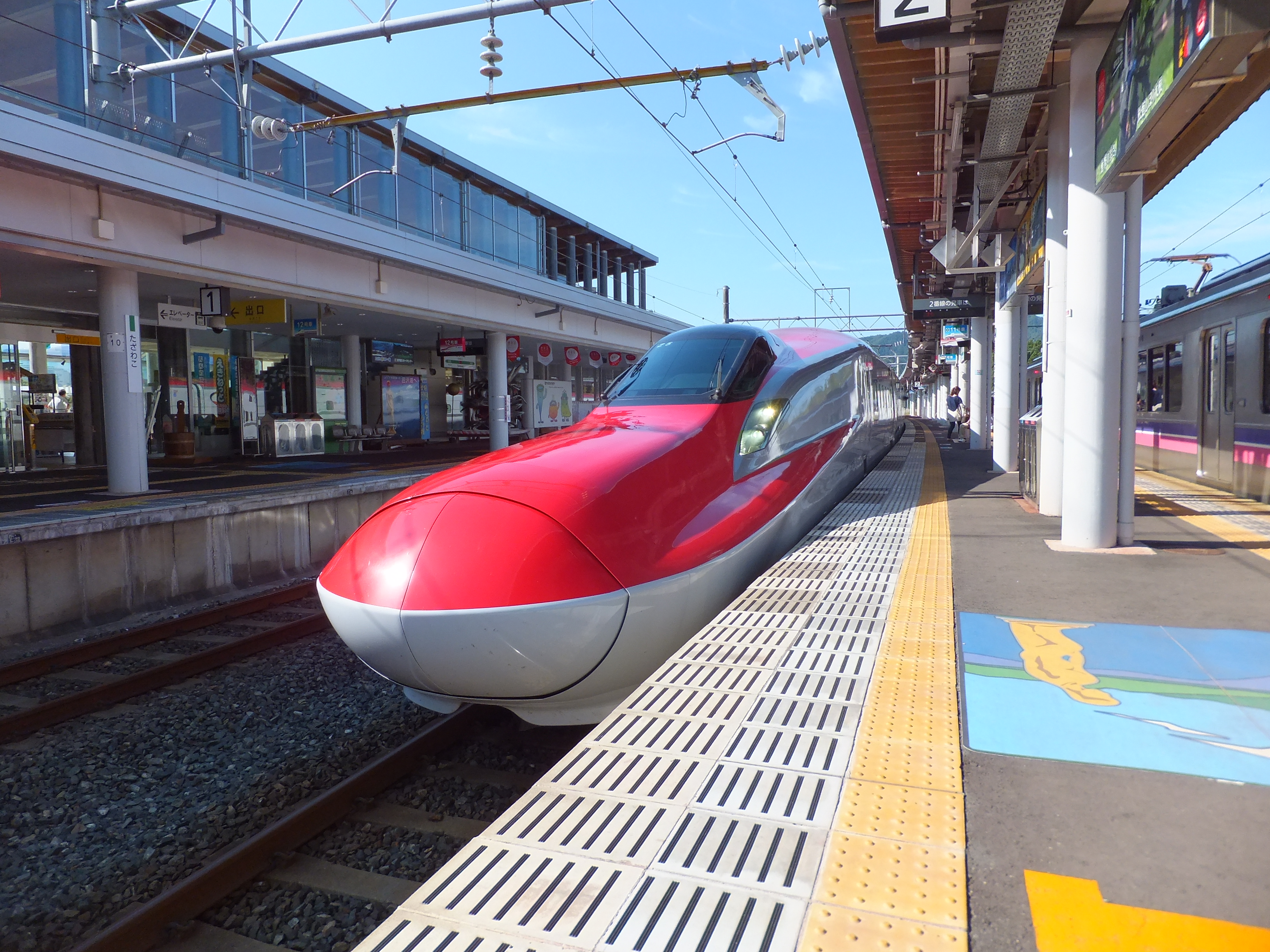 Shinkansen E6 Komachi Super-express departure from Tazawako Station